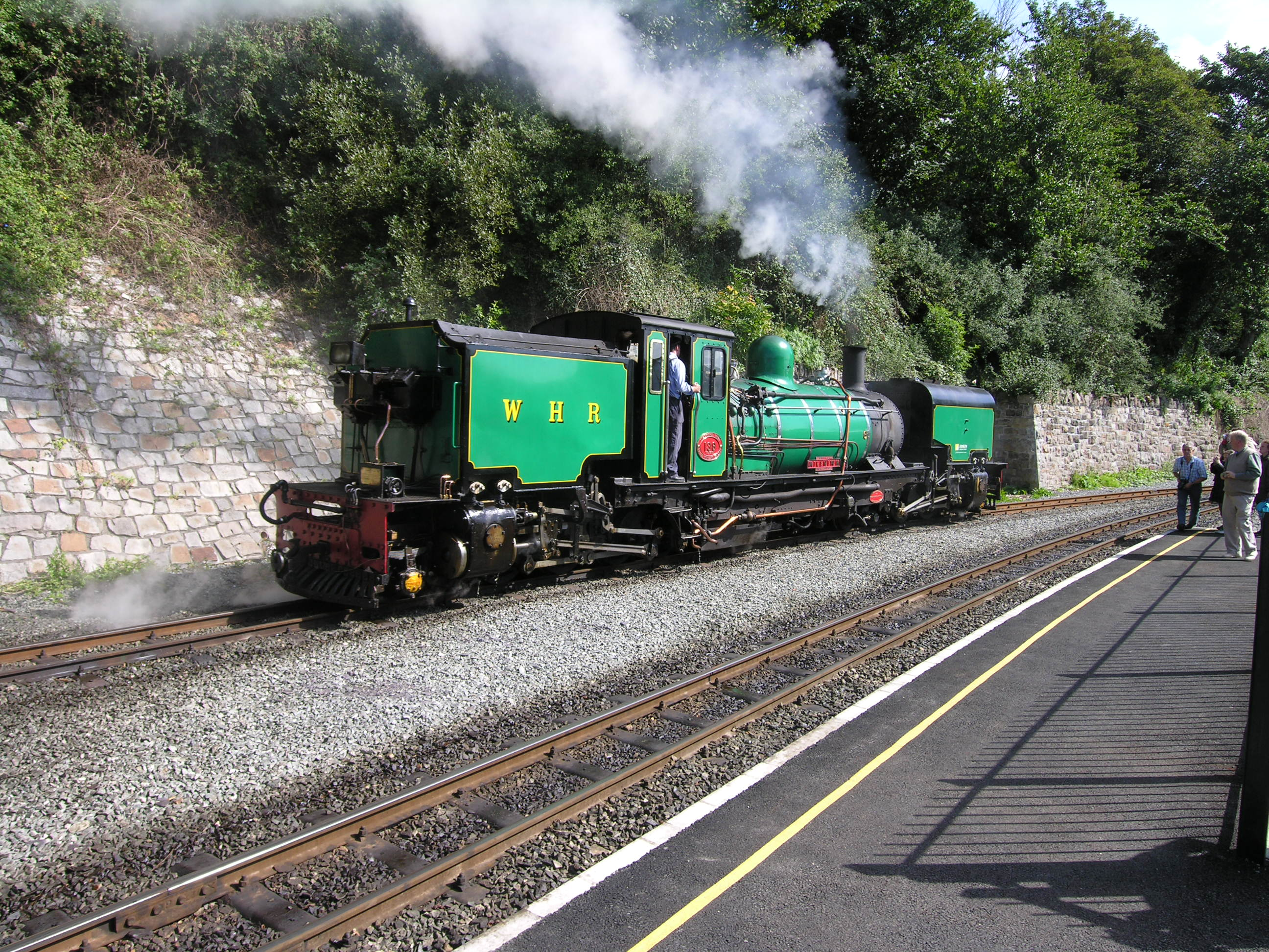 Photograph by vanoord.